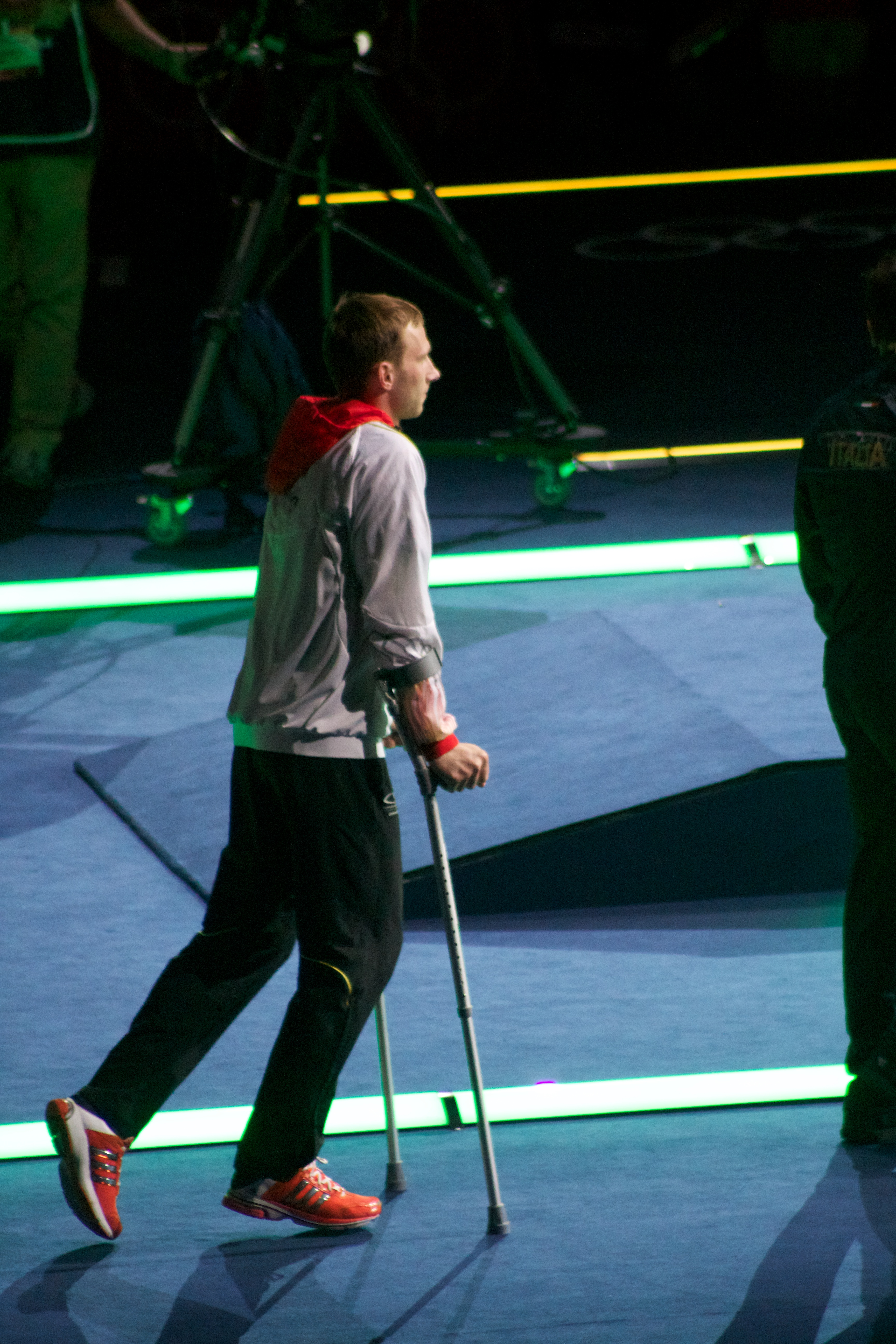 Injured Sebastian Bachmann of Germany watches from the sides teammate André Weßels fence the US' Gerek Meinhardt in the match for the bronze medal of the team men's foil event at the 2012 Summer Olympics.